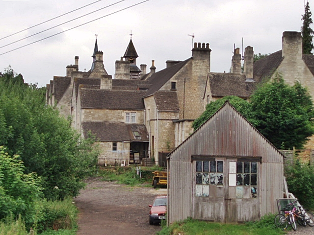 Convent of Poor Clares, Woodchester, Gloucestershire. A Grade II listed building.